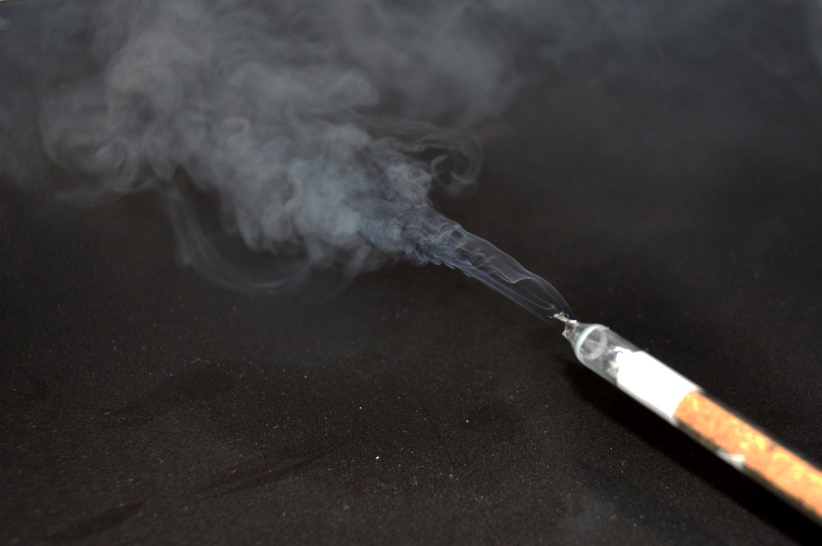 Air flow tester smoke tube